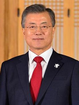 Ivanka 2018 Olympics